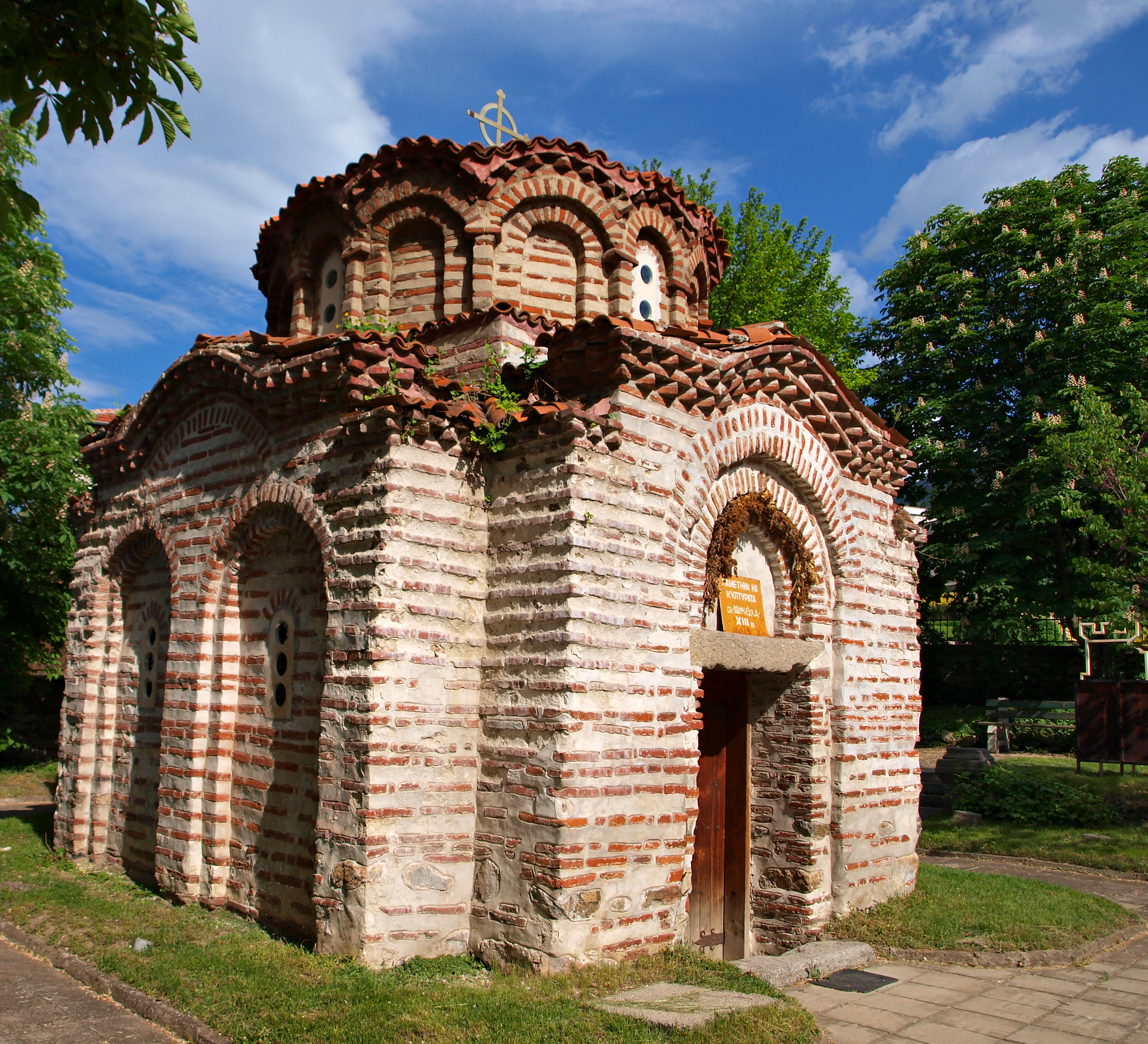 The medieval Church of St Nicholas in Sapareva Banya, Kyustendil Province, Bulgaria